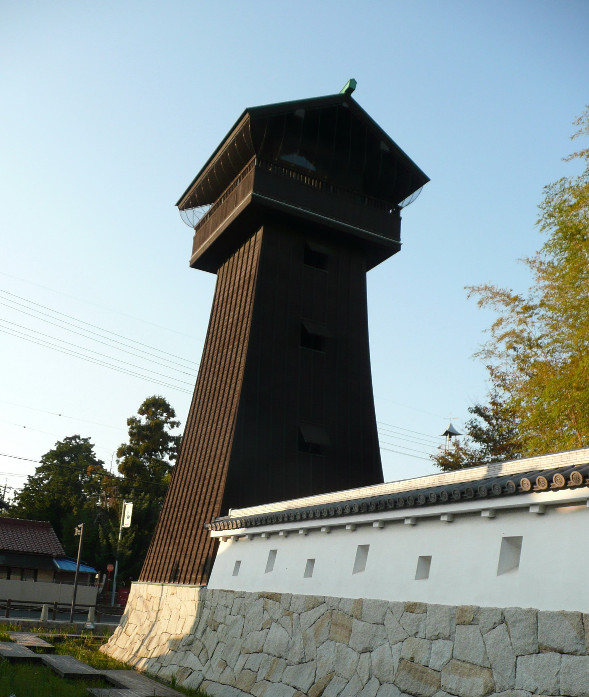 小口城の模擬櫓